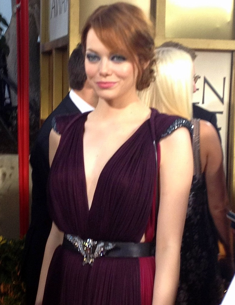 Emma Stone at the 69th Annual Golden Globes Awards 2012.